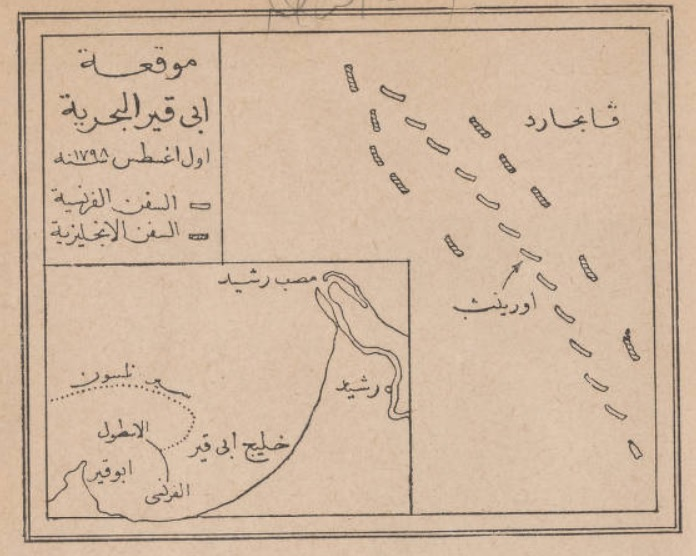 Map of the Battle of the Nile from Tārīkh Miṣr al-siyāsī fī al-azminah al-ḥadīthah""